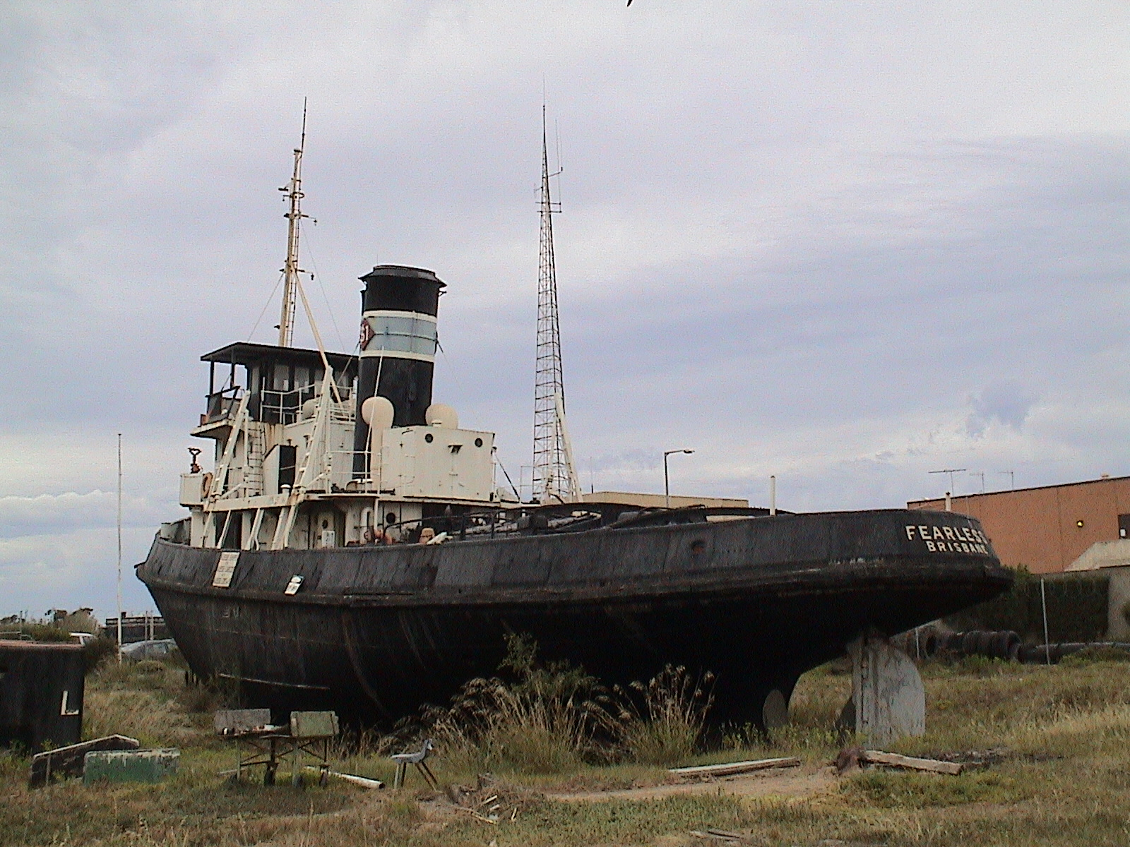 The steam tug Fearless, bought for $1 in Brisbane in 1972 and steamed to Port Adelaide by the former seaman and enthusiastic collector Keith Le Leu.